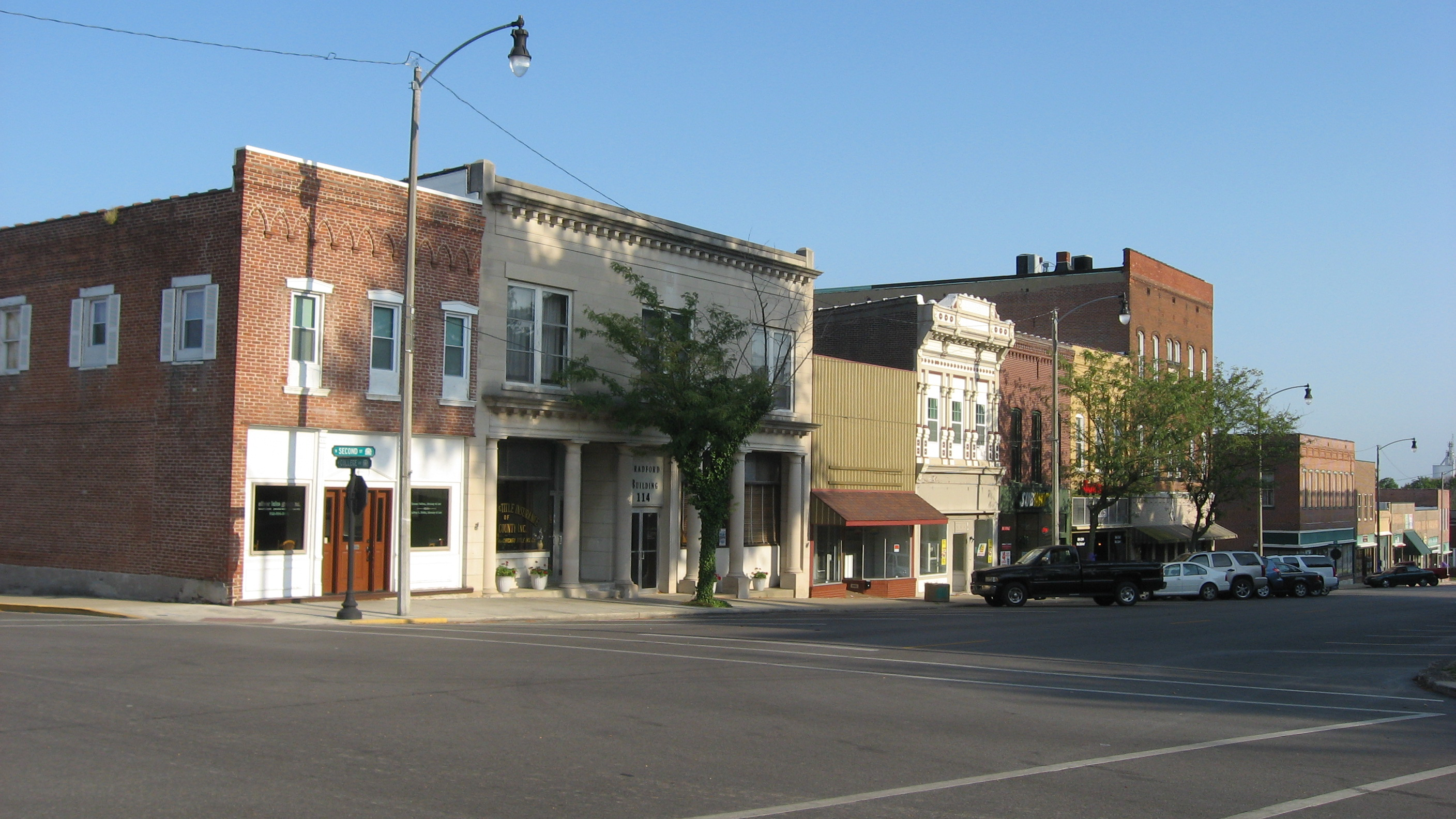 Buildings on the eastern side of the 100 block of N. Second Street (the eastern side of the courthouse square) in Greenville, Illinois, United States.